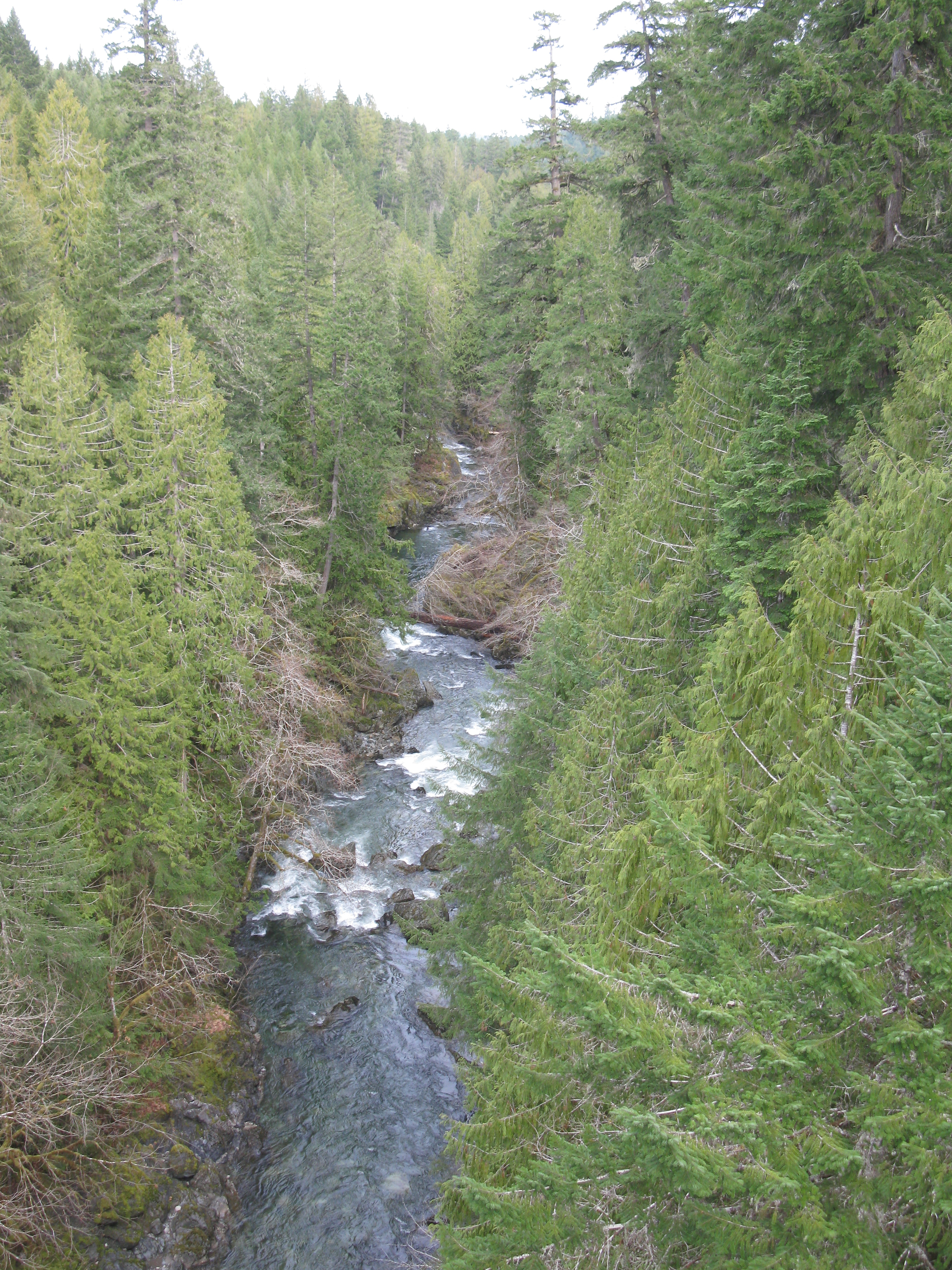 The Kinsol Trestle is now part of the Trans-Canada Trail and crosses over the Koksilah River, just east of the park.